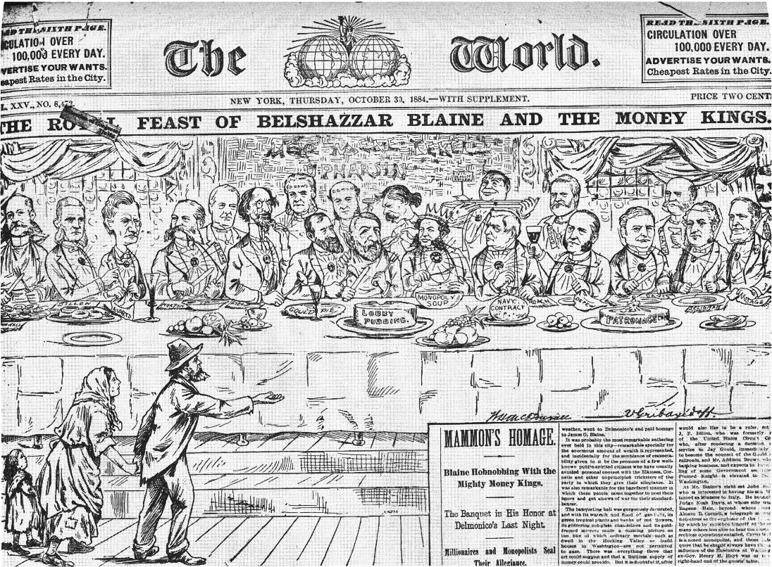 A political cartoon parodying James G. Blaine. Wealthy and influential figures dine on dishes labeled "Lobby pudding", "Monopoly soup", "Navy contract", etc. while a poor family begs. Subtitles below the cartoon read: "Mammon's Homage", "Blaine Hobnobing with the Mighty Money Kings", "The Banquet in His Honor at Delmonico's Last Night", "Millionaires and Monopolists Seal Their Allegiance". Guests include: (left to right): Aspinwall [first name and occupation unknown]; J. F. Dillon, a former circuit court judge who rendered a decision favorable to Jay Gould; William Evarts, the Republican senatorial candidate in New York; Levi Morton, U.S. minister to France (and future vice president and New York governor); possibly Judge Scott Sloan of Wisconsin; financier Cyrus Field; businessman David Dows; financier Jay Gould; unknown; Blaine; New York Tribune editor Whitelaw Reid; financier William Henry Vanderbilt; Blaine campaign manager and coal baron Stephen Elkins; naval contractor John Roach; William Dowd, banker and unsuccessful Republican candidate for New York mayor in 1880; railroad mogul Chauncey Depew; Judge Noah Davis; businessman and Wall Street financier Rufus Hatch; banker Jesse Seligman; financier Russell Sage; and former congressman Anson McCook of New York. Illustrated by Walt McDougall and Valerian Gribayedoff.